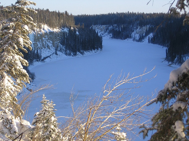 Looking down the Hay River in December